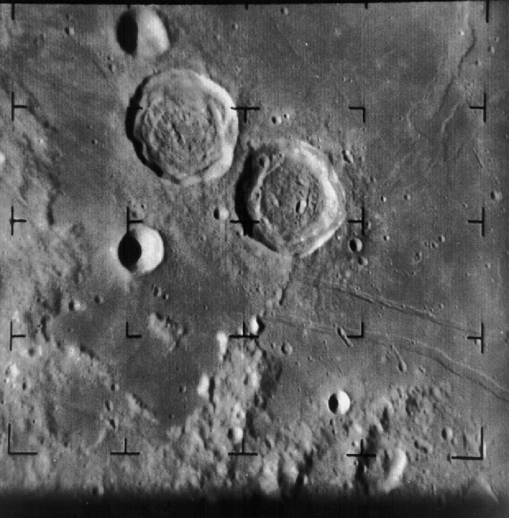 An image of the moon taken by the Ranger 8 space probe, showing the craters Ritter and Sabine.